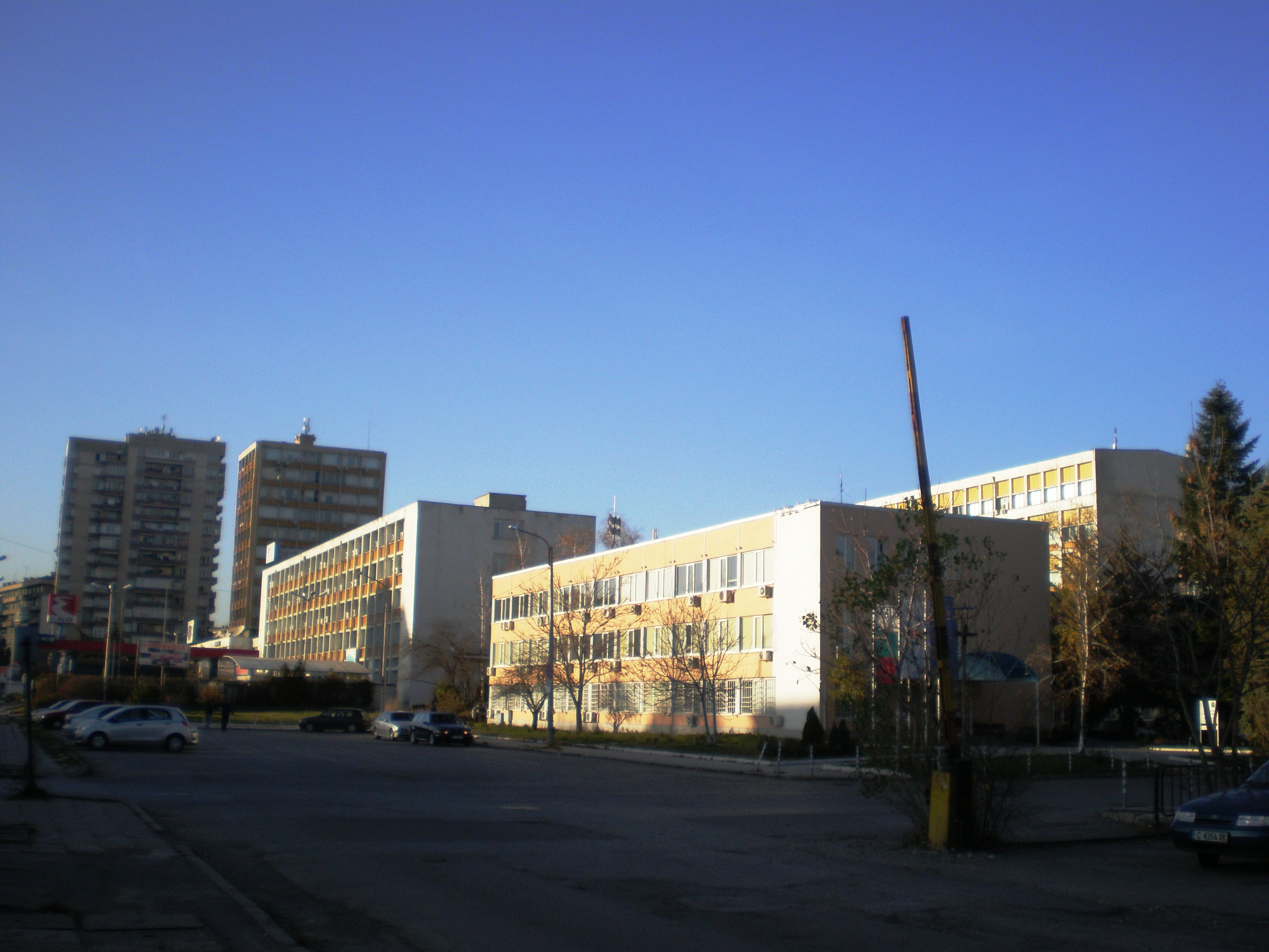 Slatina municipality building, Sofia, Bulgaria